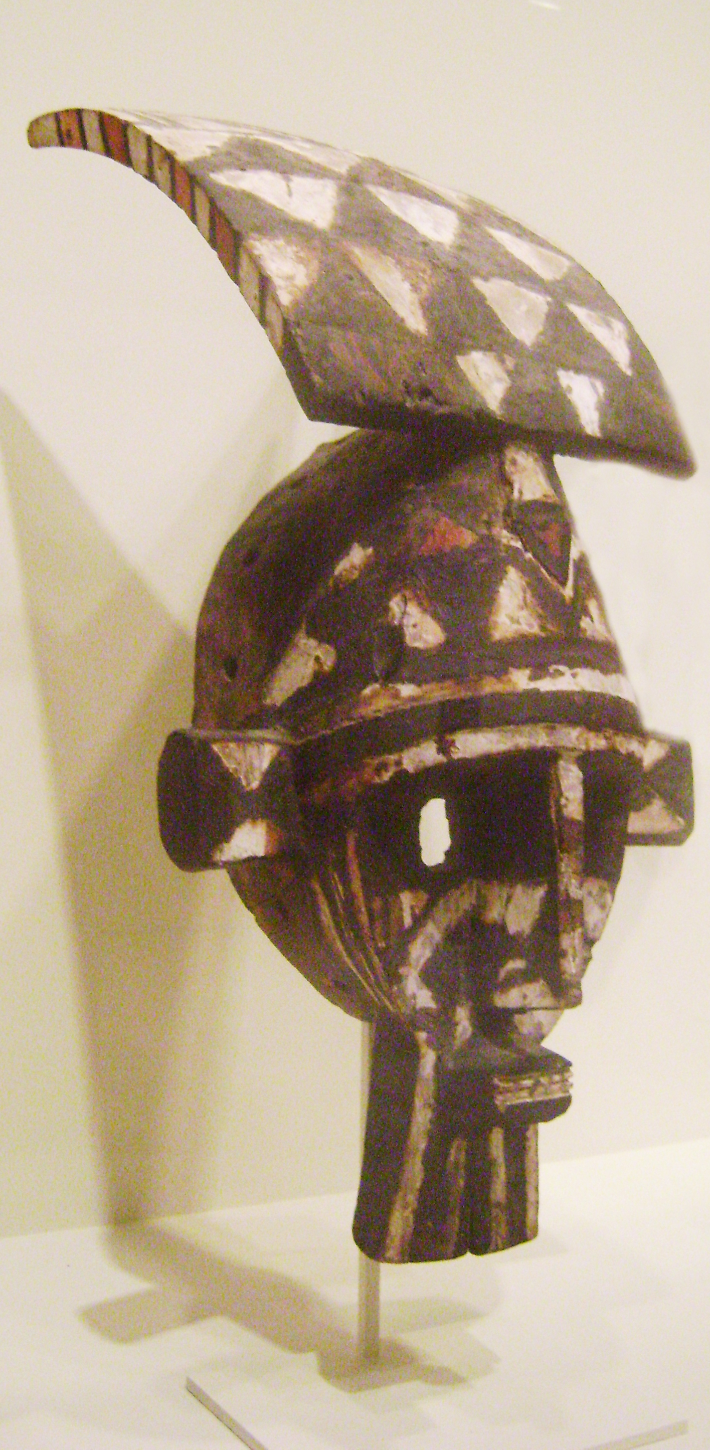 Face mask, Marka-Dafing people, Burkina Faso. Mid 20th century. Wood, pigment. In the collection of the Cincinnati Art Museum, from whose exhibit caption this information is cited. Acc. number 1986.178 Cincinnati Art Museum Native nameCincinnati Art MuseumLocationCincinnati, USACoordinates39° 06′ 52.69″ N, 84° 29′ 49.07″ W Established1881Web page control : Q2970522 VIAF: 239984674 ISNI: 0000 0004 0389 613X ULAN: 500284805 LCCN: n79058412 NLA: 36208956 WorldCat institution QS:P195,Q2970522